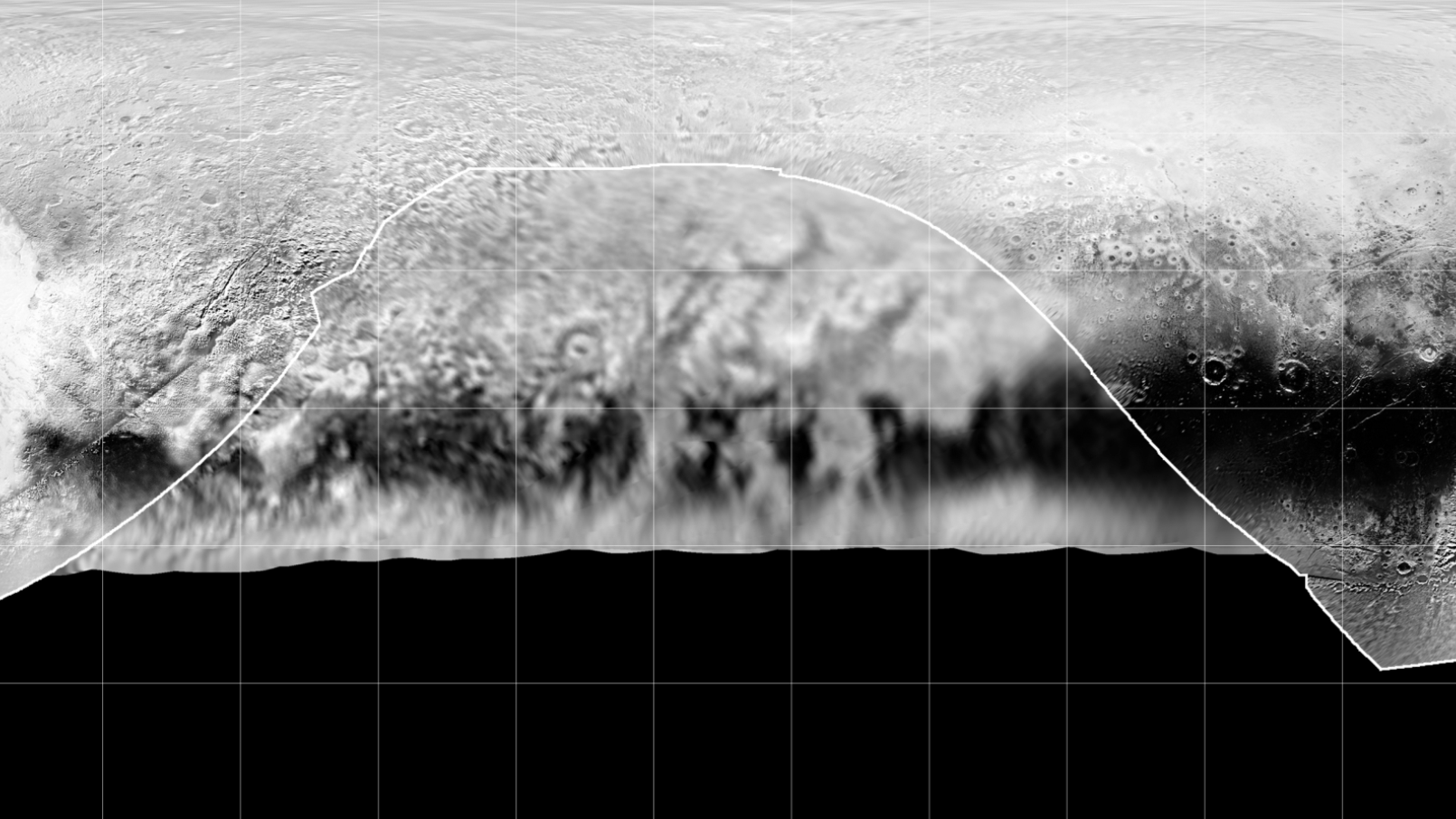 Fresh Look at New Horizons Data Shows Pluto’s ‘Far Side’ in Unprecedented Detail[1] Updated map of Pluto showing the far side (the region below the white line). Areas in black could not be imaged by New Horizons.